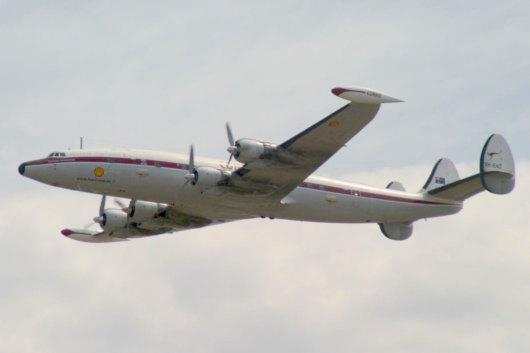 The Lockheed Super Constellation "Connie", restored in the United States, performing a flypast at the 2005 Australian International Airshow and Aerospace & Defence Exposition.